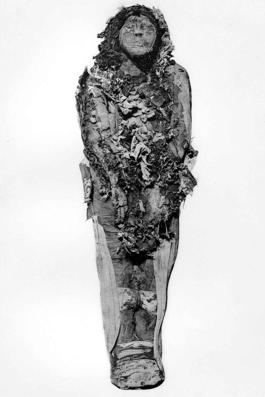 Mummy of Maatkare Mutemhat, God's Wife of Amun during the 21st dynasty and daughter of the High Priest of Amun Pinedjem I, found in DB320.